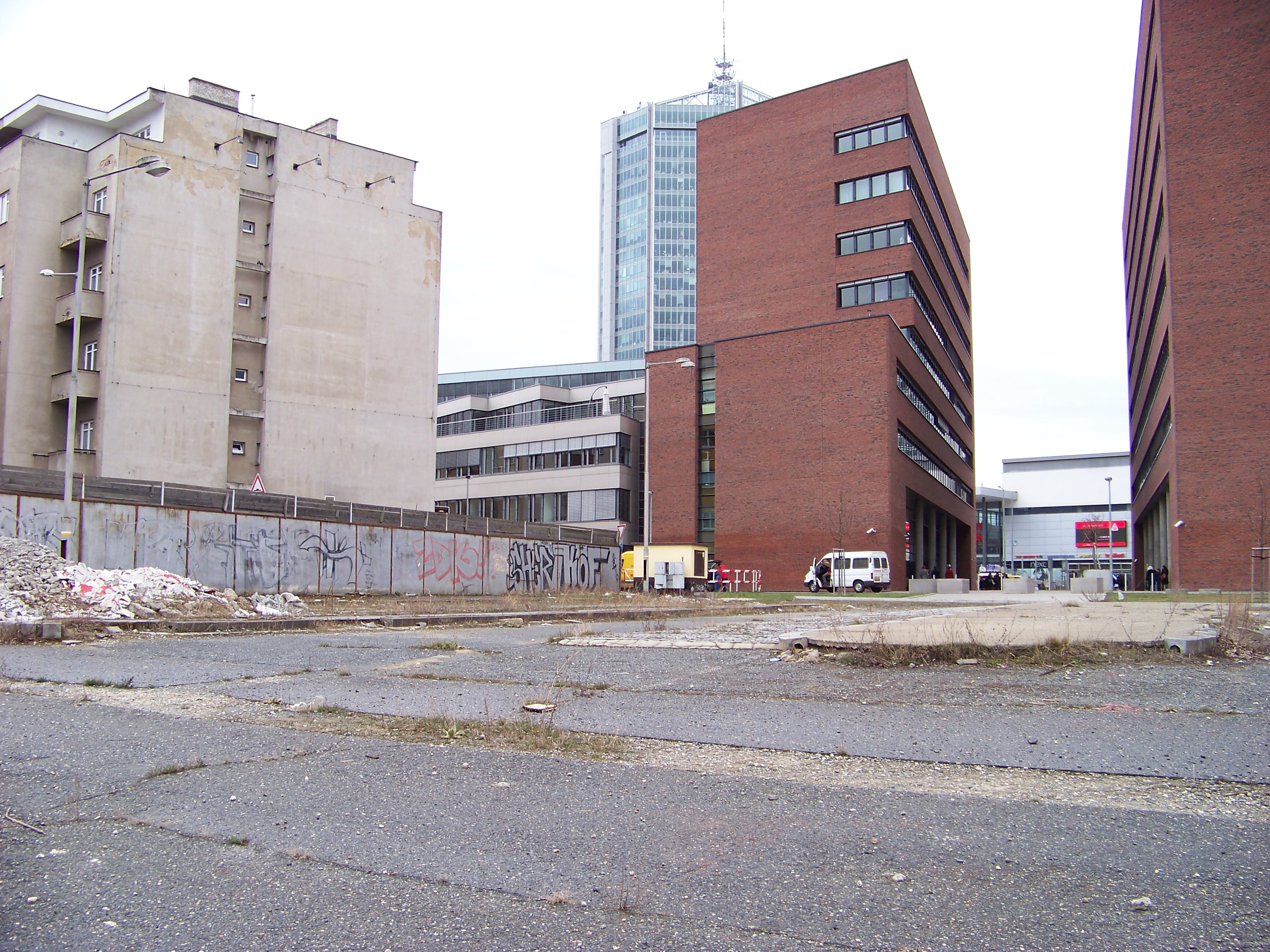 Prague-Nusle, the Czech Republic. Remains of Pankrác bus station.